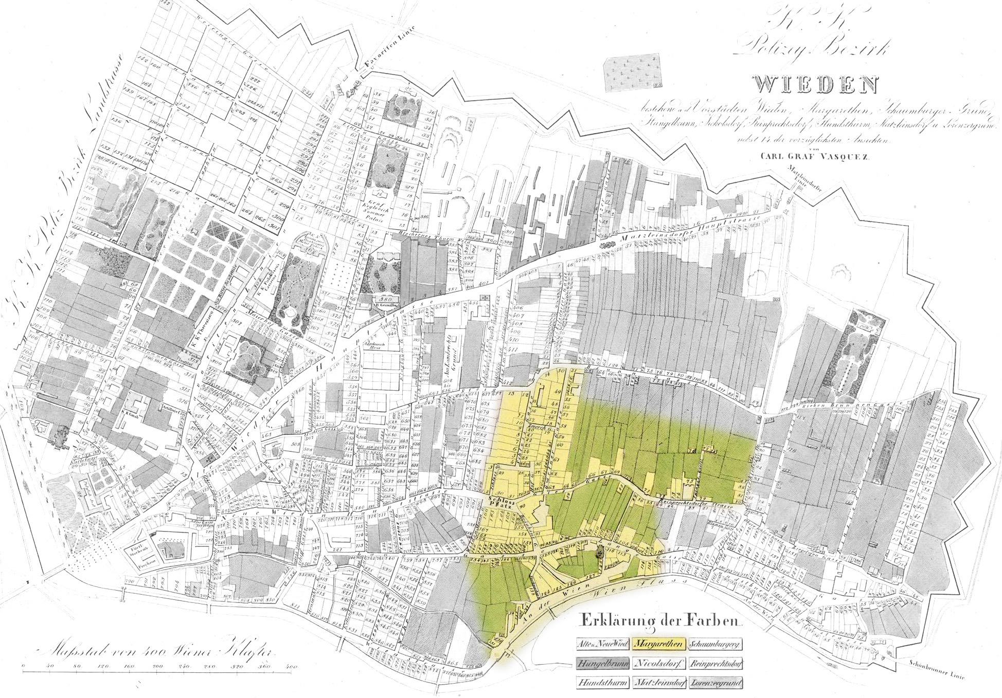 Map of Vienna / Margareten, approx. 1830